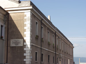 Seminario Vescovile in Teggiano (SA) - Italy